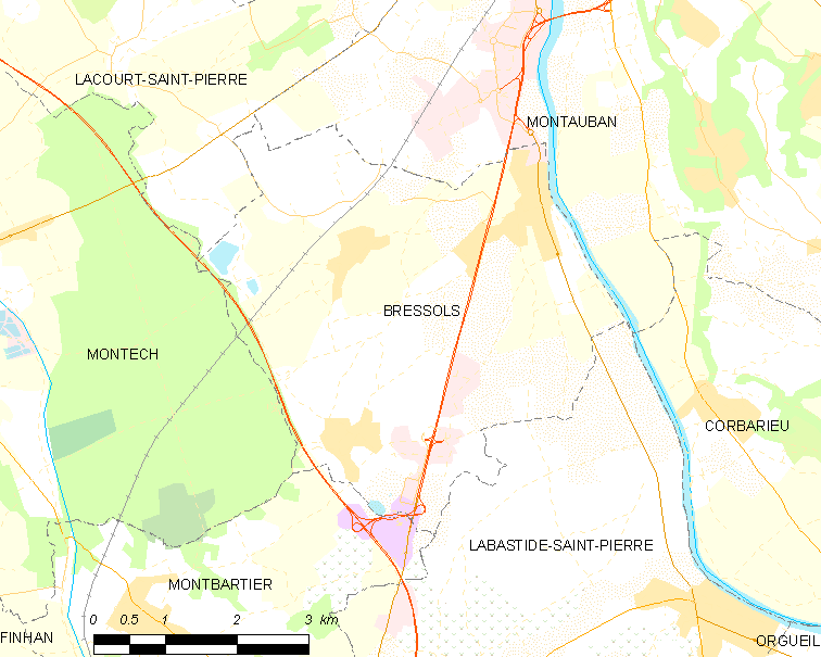 Map of French municipality Bressols